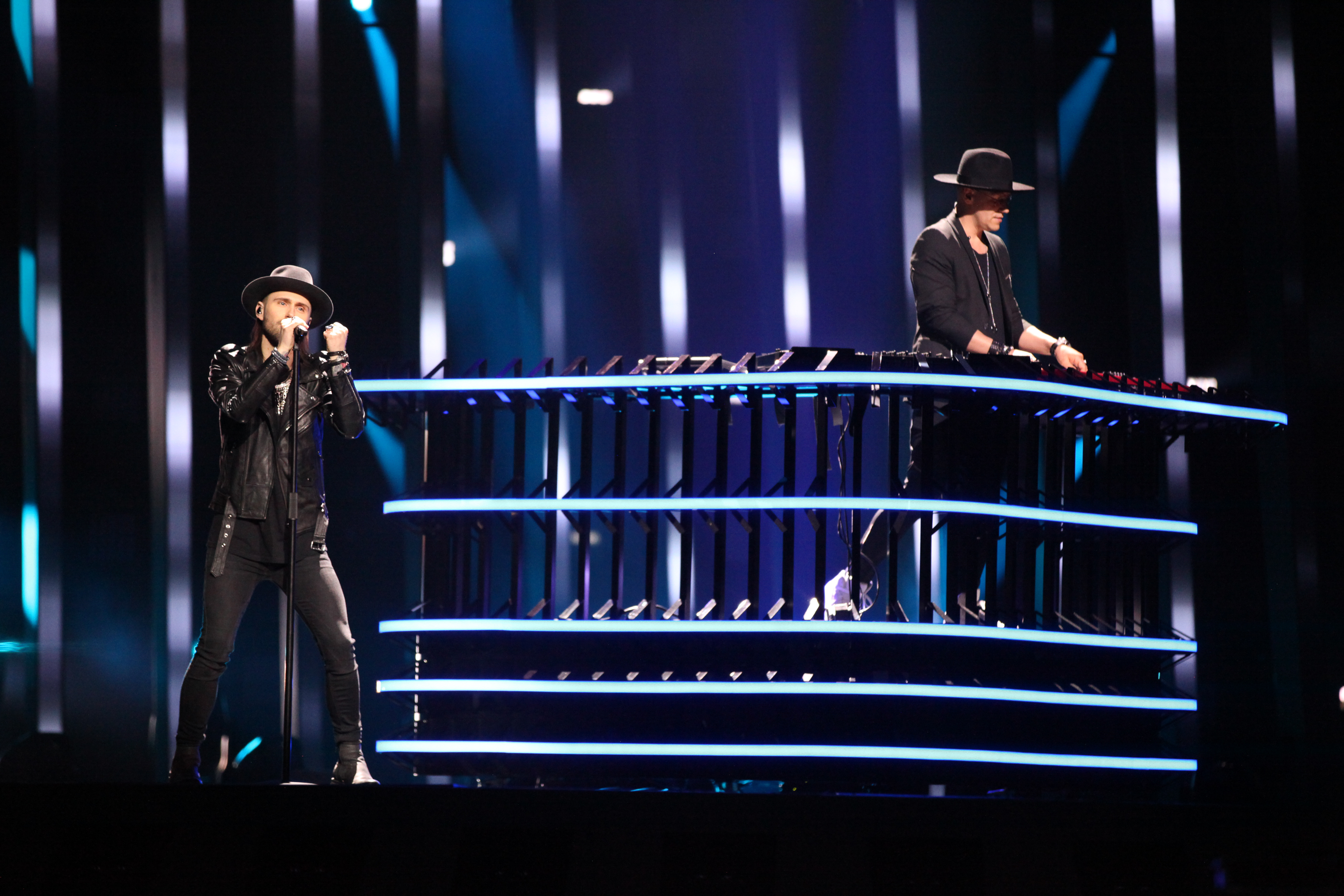 Gromee feat. Lukas Meijer representing Poland with the song "Light Me Up" during a rehearsal before the second semi final of the Eurovision Song Contest 2018 in Lisbon.